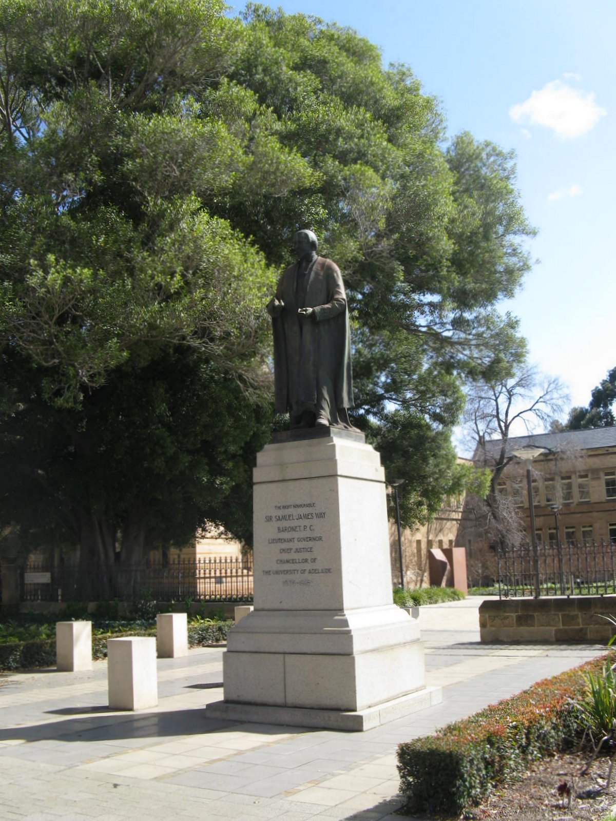 Jubilee 150 Walkway - Statue of Sir Samuel Way at the University of Adelaide